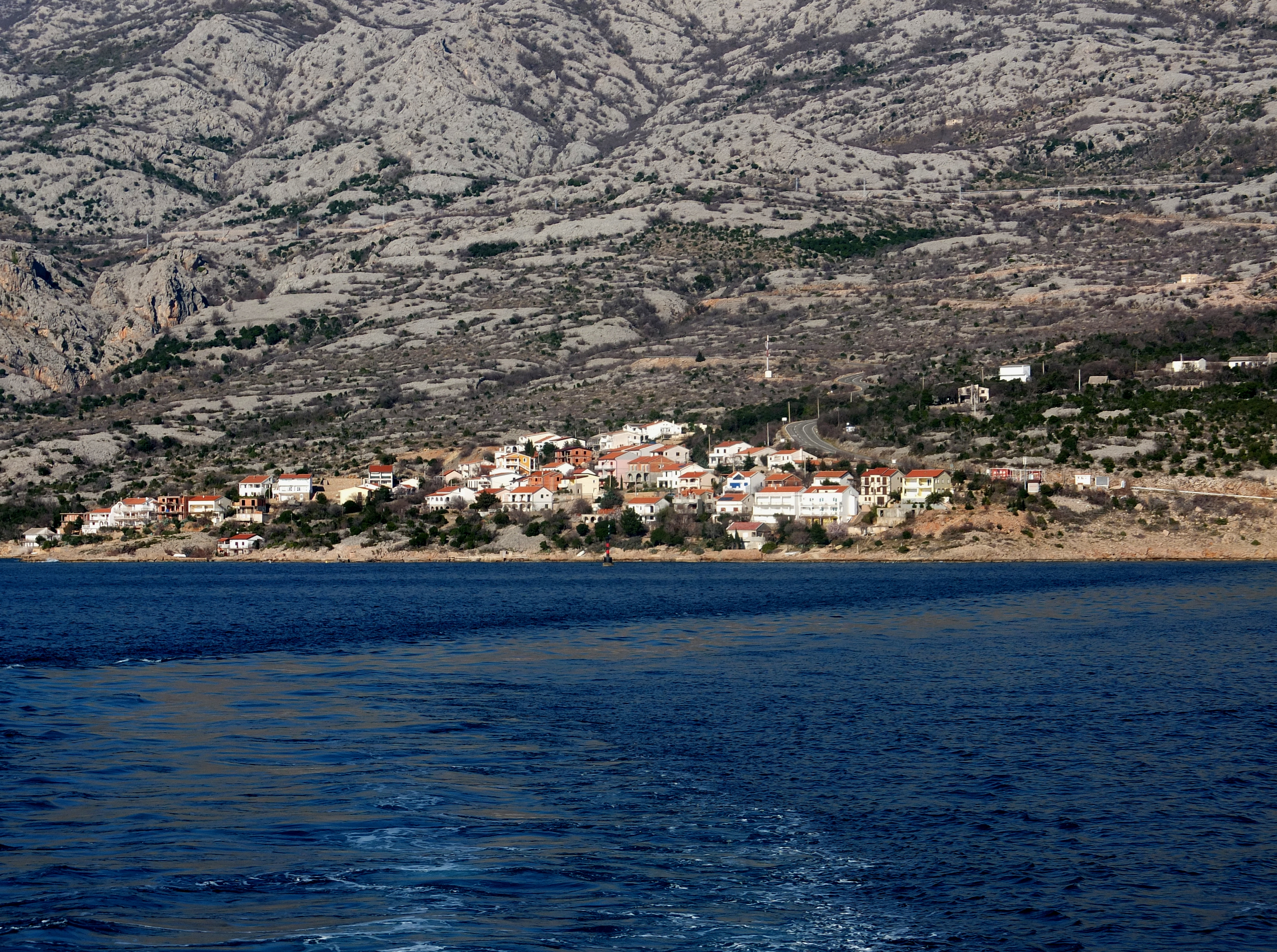 Harbour Prizna (ferry to Novalia on the Island of Pag), Croatia, view W.